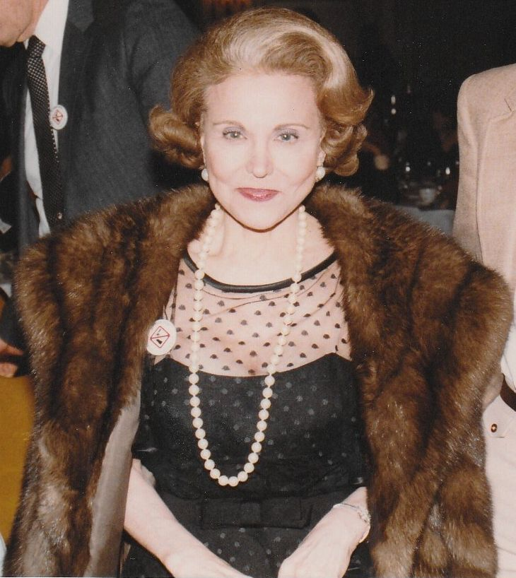 In Chicago, 1983. Eppie Lederer, known as Ann Landers (1918-2002).